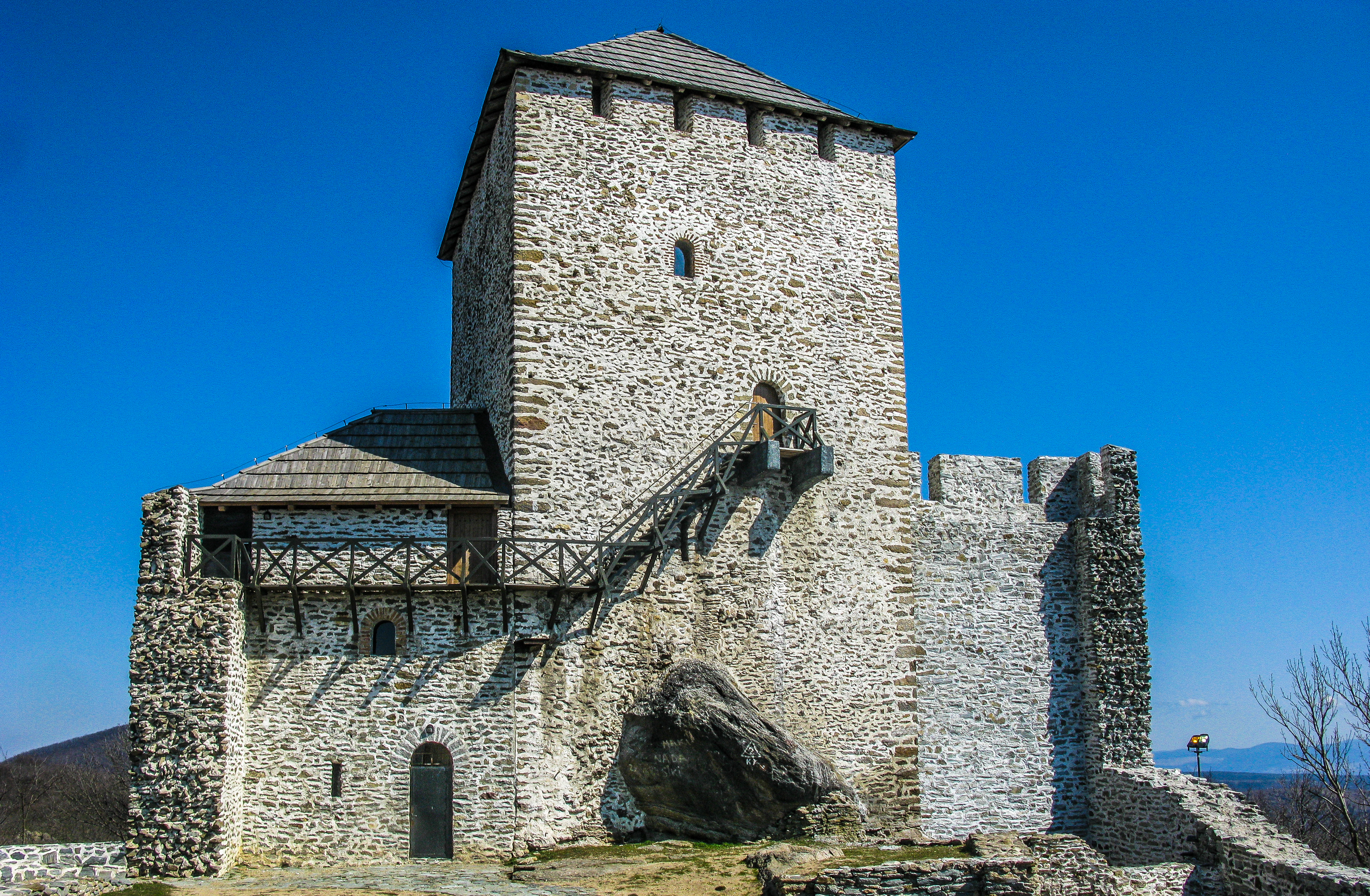 Donjon of Vršac Fortress,after restoration.